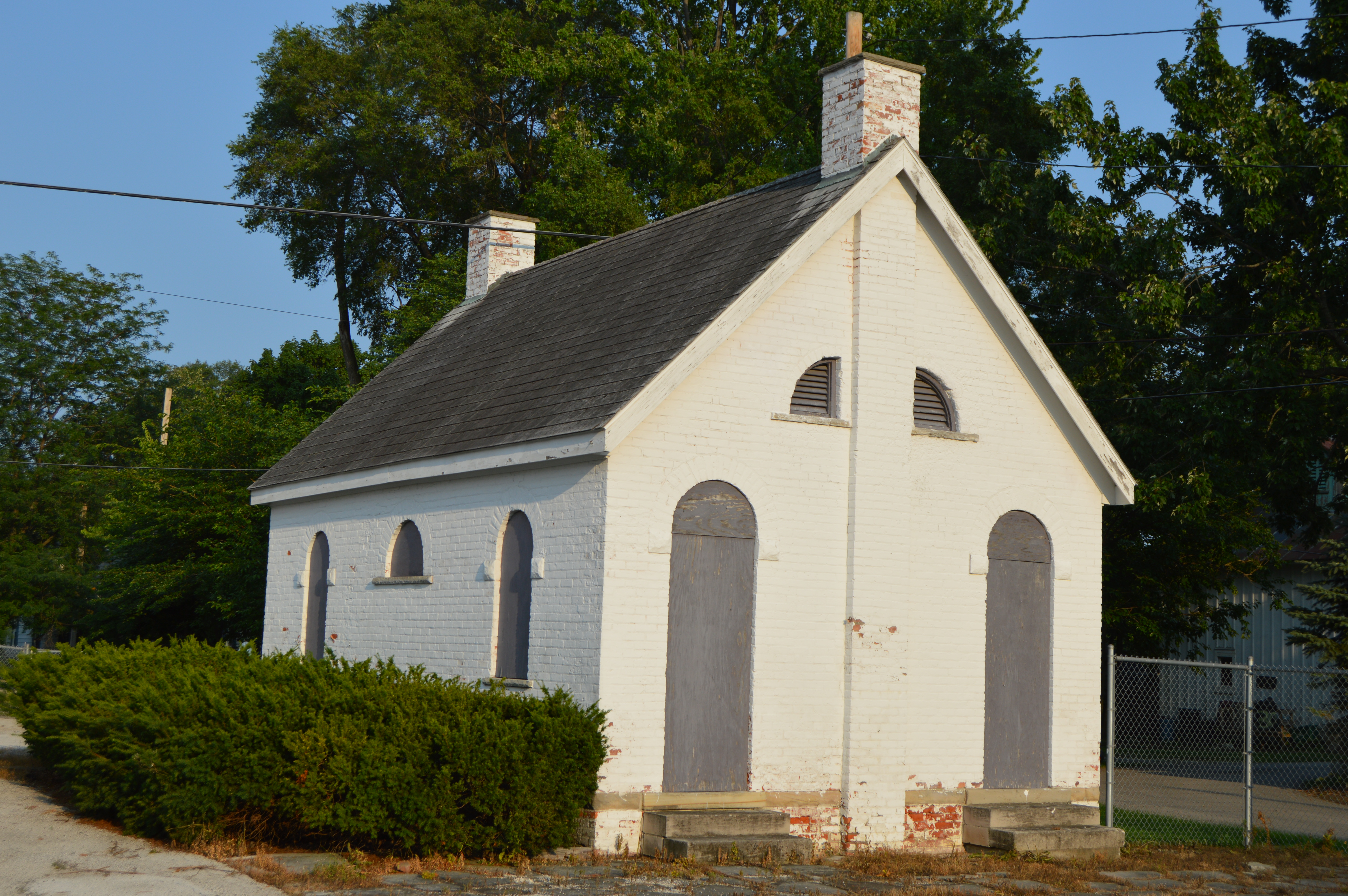 Western end and northern side of the Old School Privy, located behind the old Genoa School at 310 Main Street in Genoa, Ohio, United States. Built in 1870, it is listed on the National Register of Historic Places.